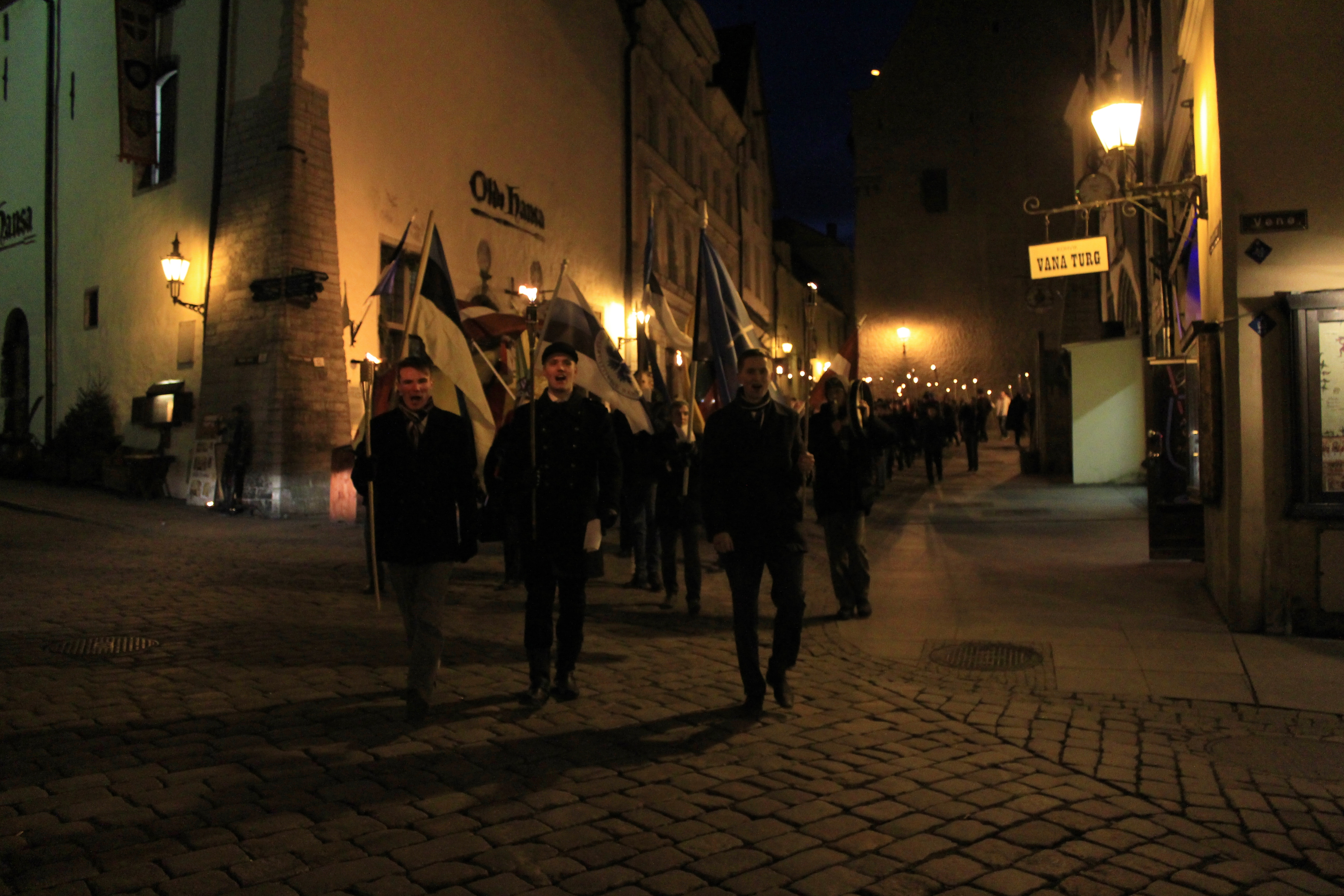 Members of Estonian nationalist youth during a torchlight march in Tallinn